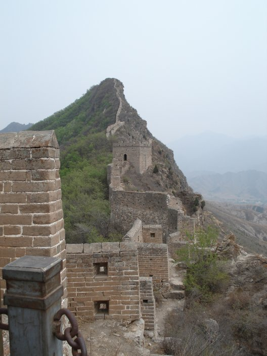 Simatai Great Wall looking east from the 12th watchtower towards the Heavenly Ladder